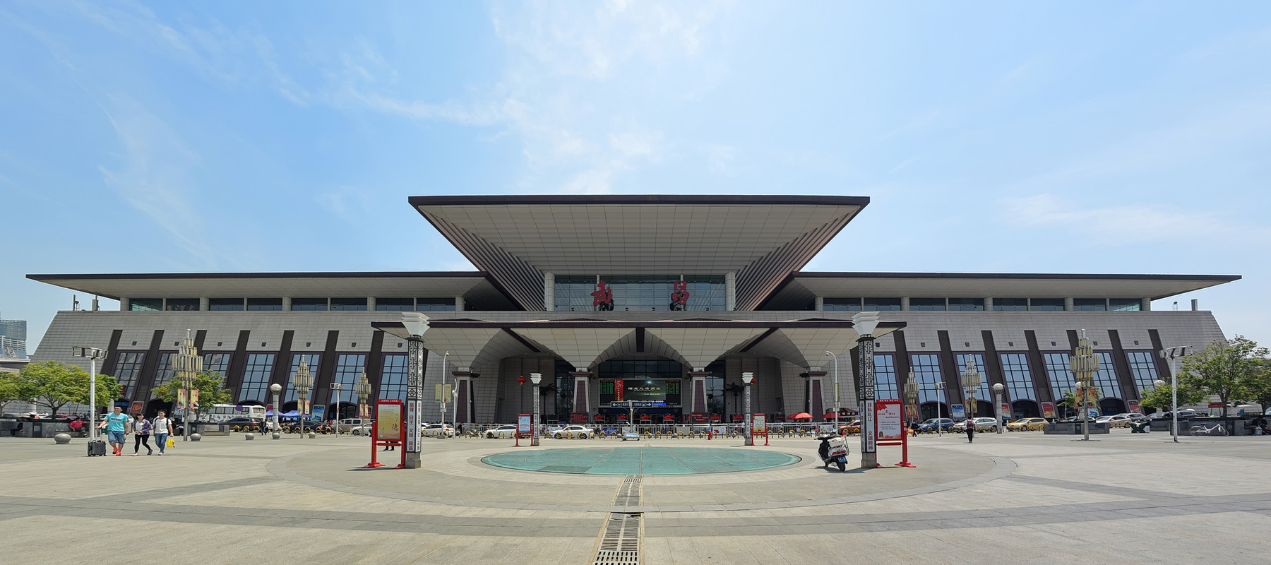 West Square of Wuchang Railway Station